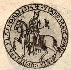 Margaret II of Flanders